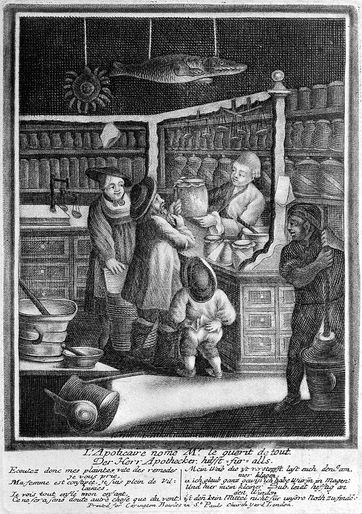 A couple and their child consulting a pharmacist in his shop, an apprentice is mixing up a concoction with a large pestle and mortar. Soft-ground etching. Iconographic Collections Keywords: Pharmacy